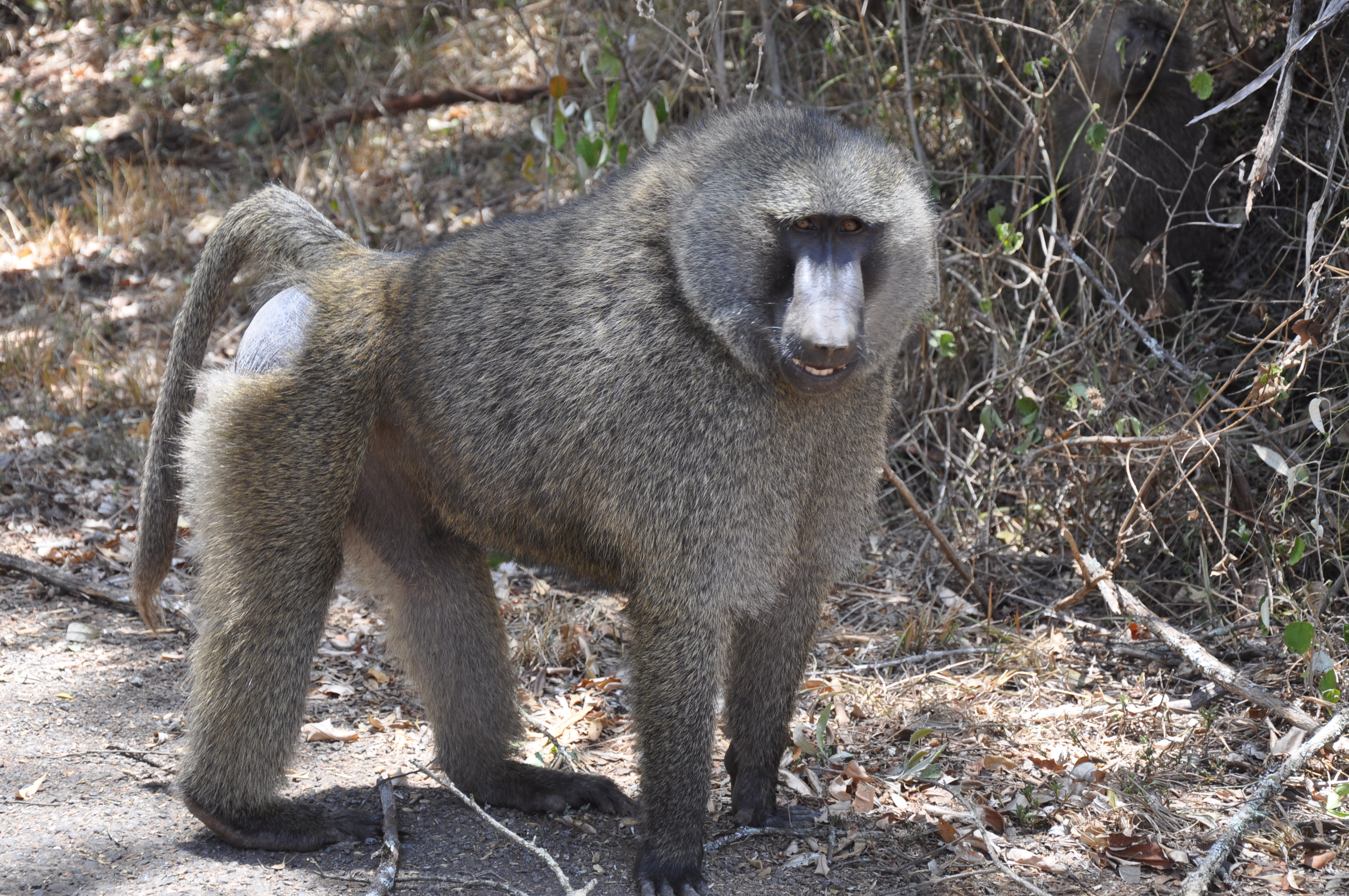 The Olive Baboon (Papio anubis), also called the Anubis Baboon, is a member of the family Cercopithecidae (Old World monkeys). The species is the most widely spread of all baboons: it is found in 25 countries throughout Africa, extending south from Mali to Ethiopia and to Tanzania. The Olive Baboon is named for its coat, which, at a distance, is a shade of green-grey. (Its alternate name comes from the Egyptian god Anubis, who was often represented by a dog head resembling the dog-like muzzle of the baboon.) At closer range, its coat is multi-colored, due to rings of yellow-brown and black on the hairs. The hair on the baboon's face, however, is finer and ranges from dark grey to black. This coloration is shared by both sexes, although males have a mane of longer hair that tapers down to ordinary length along the back. Besides the mane, the male Olive Baboon differs from the female in terms of size and weight. Males are, on average, 70 cm tall and weigh 24 kg; females measure 60 cm and 14.7 kg.